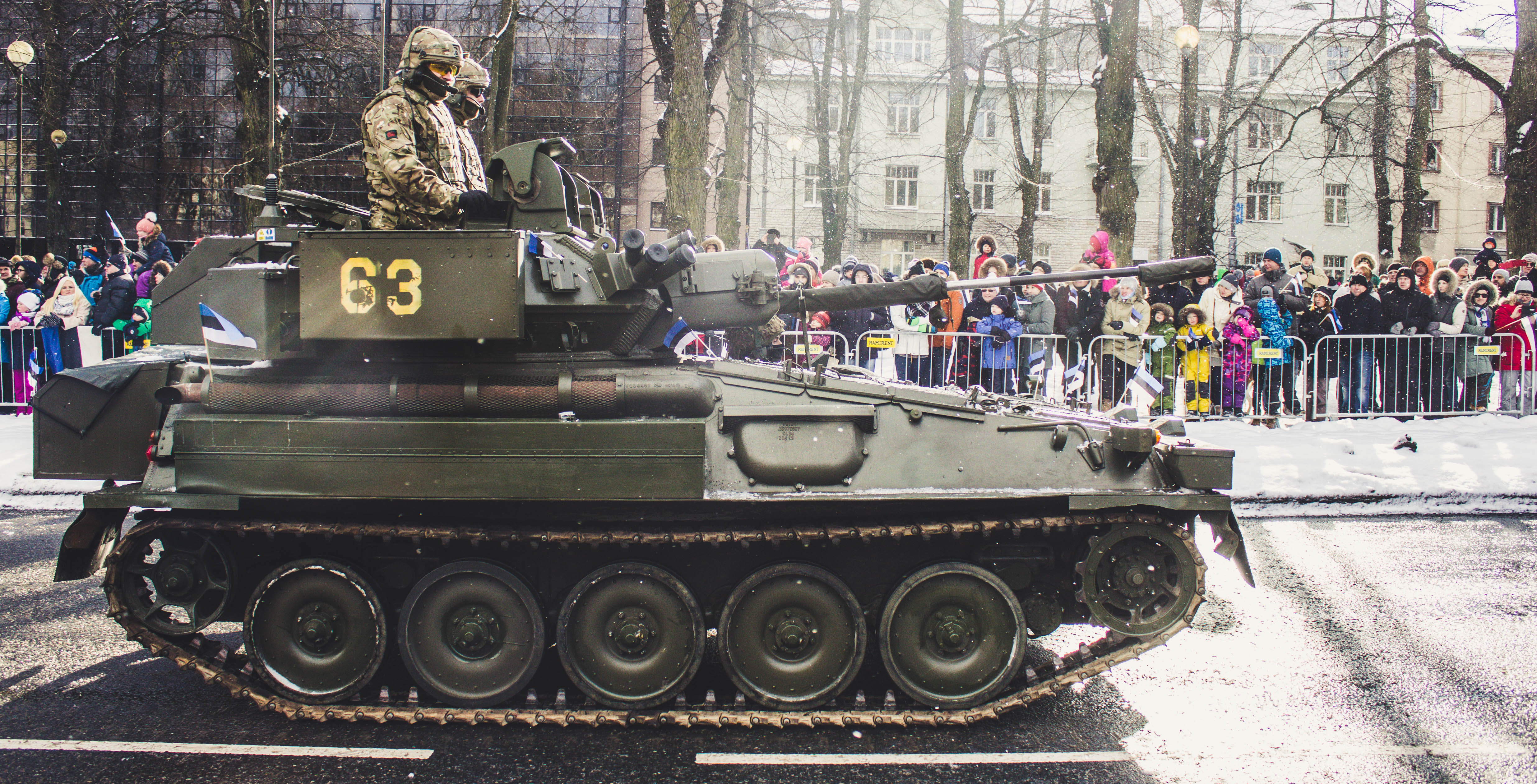 A British Army FV107 Scimitar armoured reconnaissance vehicle seen at a parade in Estonia